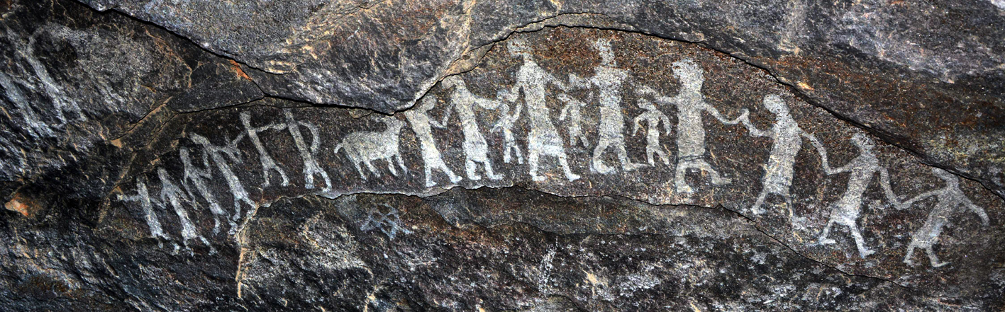 Approximated two millennium old Paintings found near Palani in Indian state of Tamil Nadu.